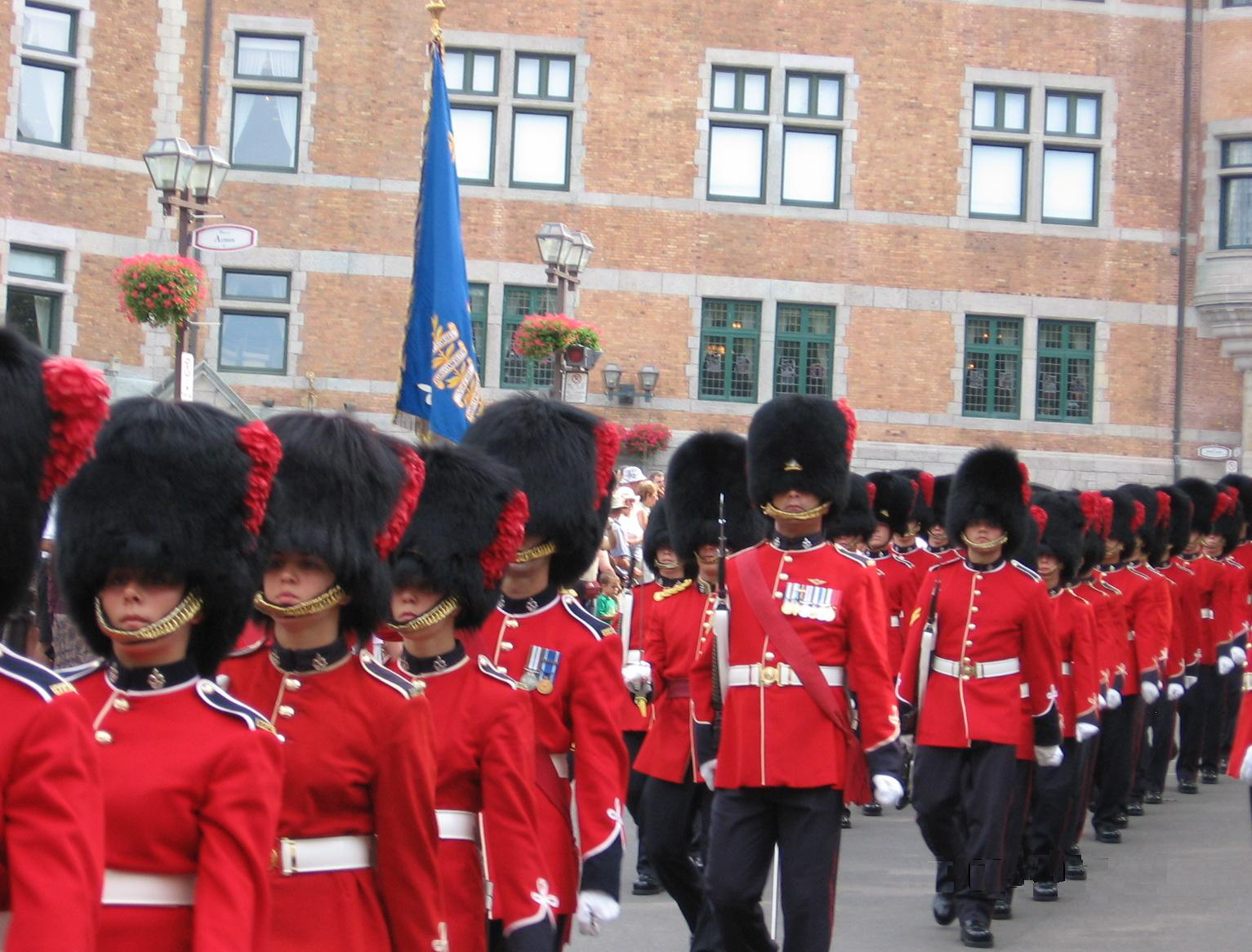 Royal 22e Régiment